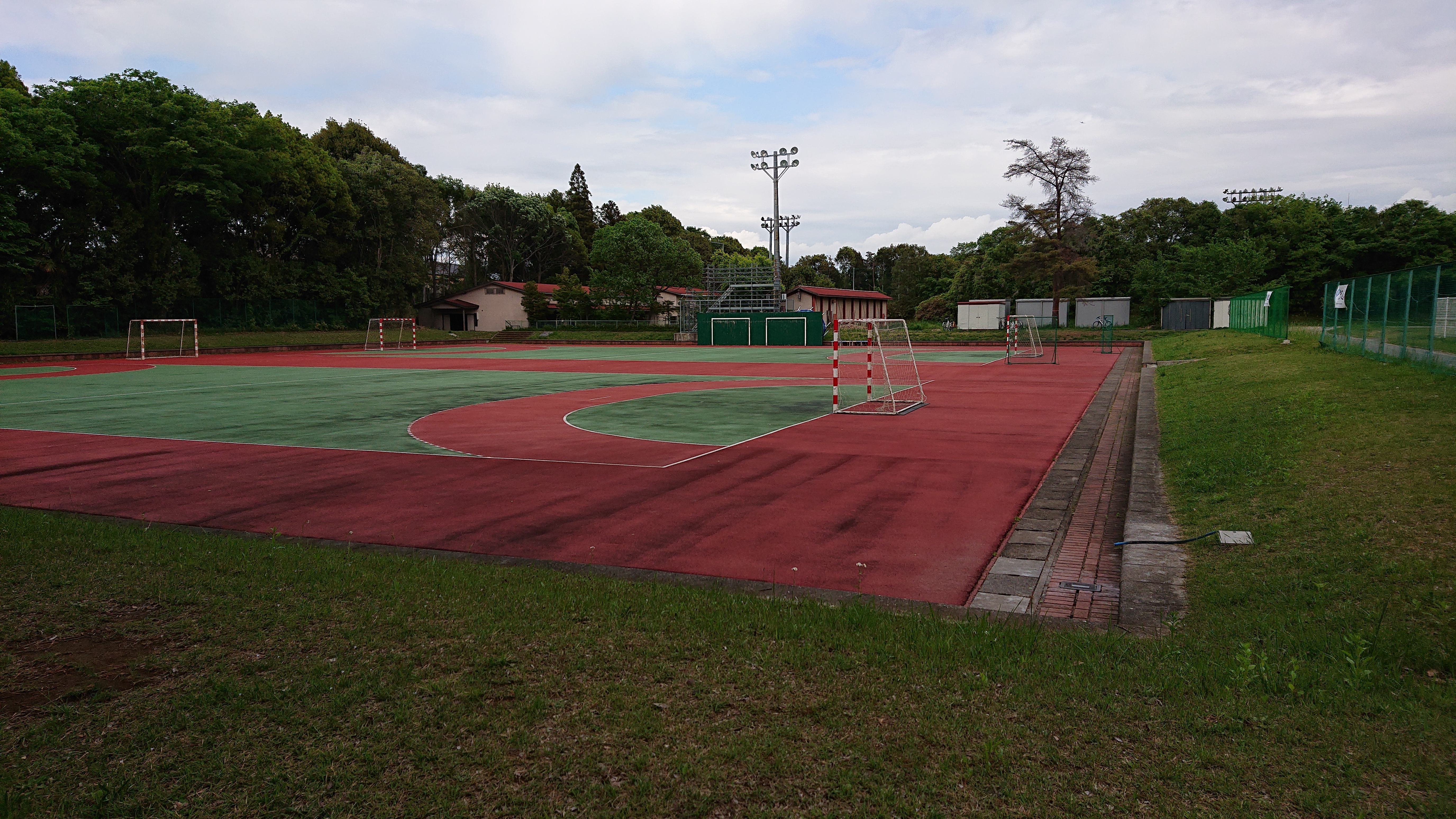 This is the handball court of University of Tsukuba, Ibaraki, Japan.